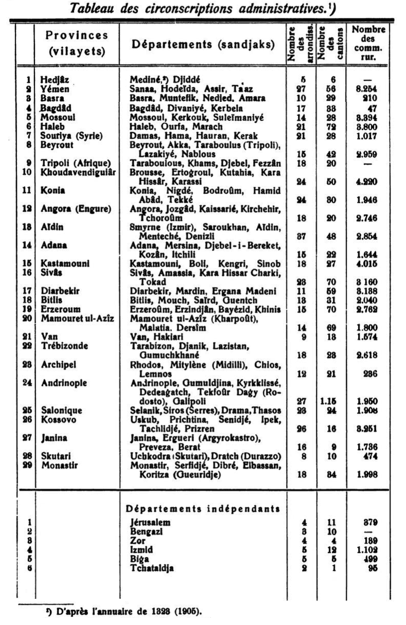 Table of Ottoman Administrative Divisions 1905 (Tableau des circonscriptions administratives)